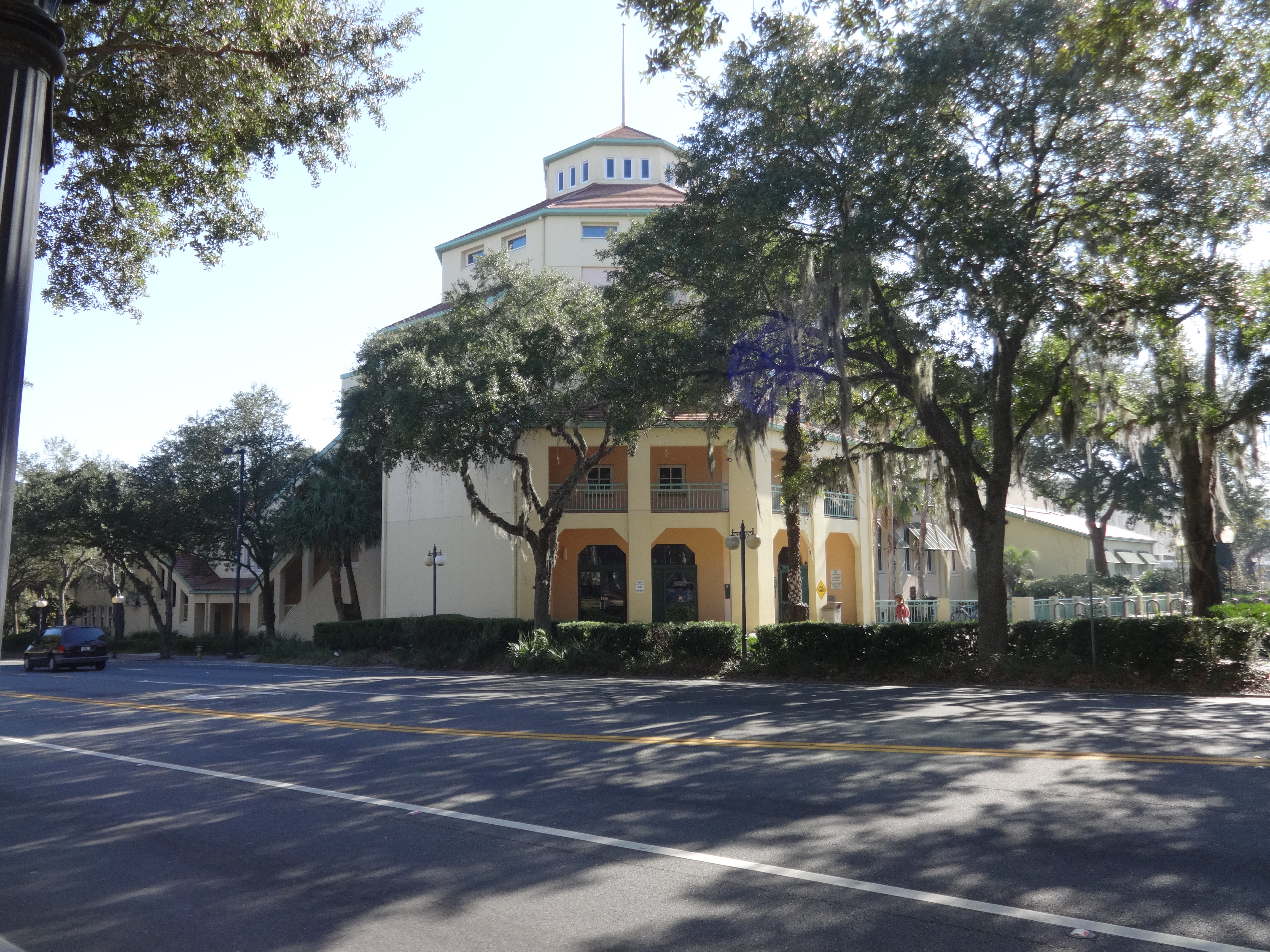 Alachua County Library District Headquarters (NW corner), Gainesville, Alachua County, Florida